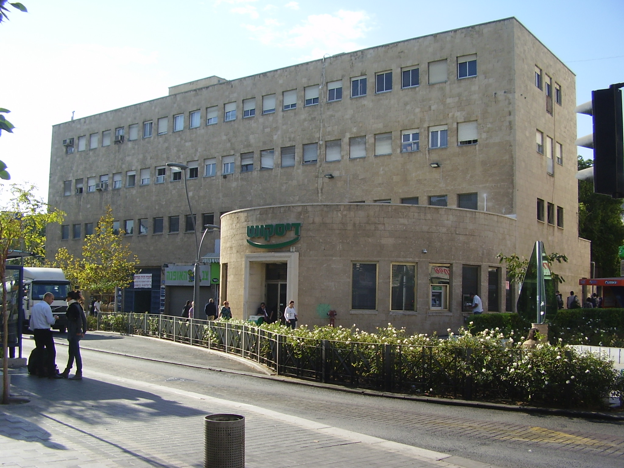 The Funds House in Haifa